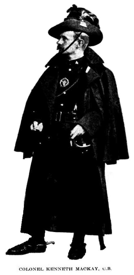 A posed photograph of Colonel Kenneth MACKAY, Australian military officer, 1901.